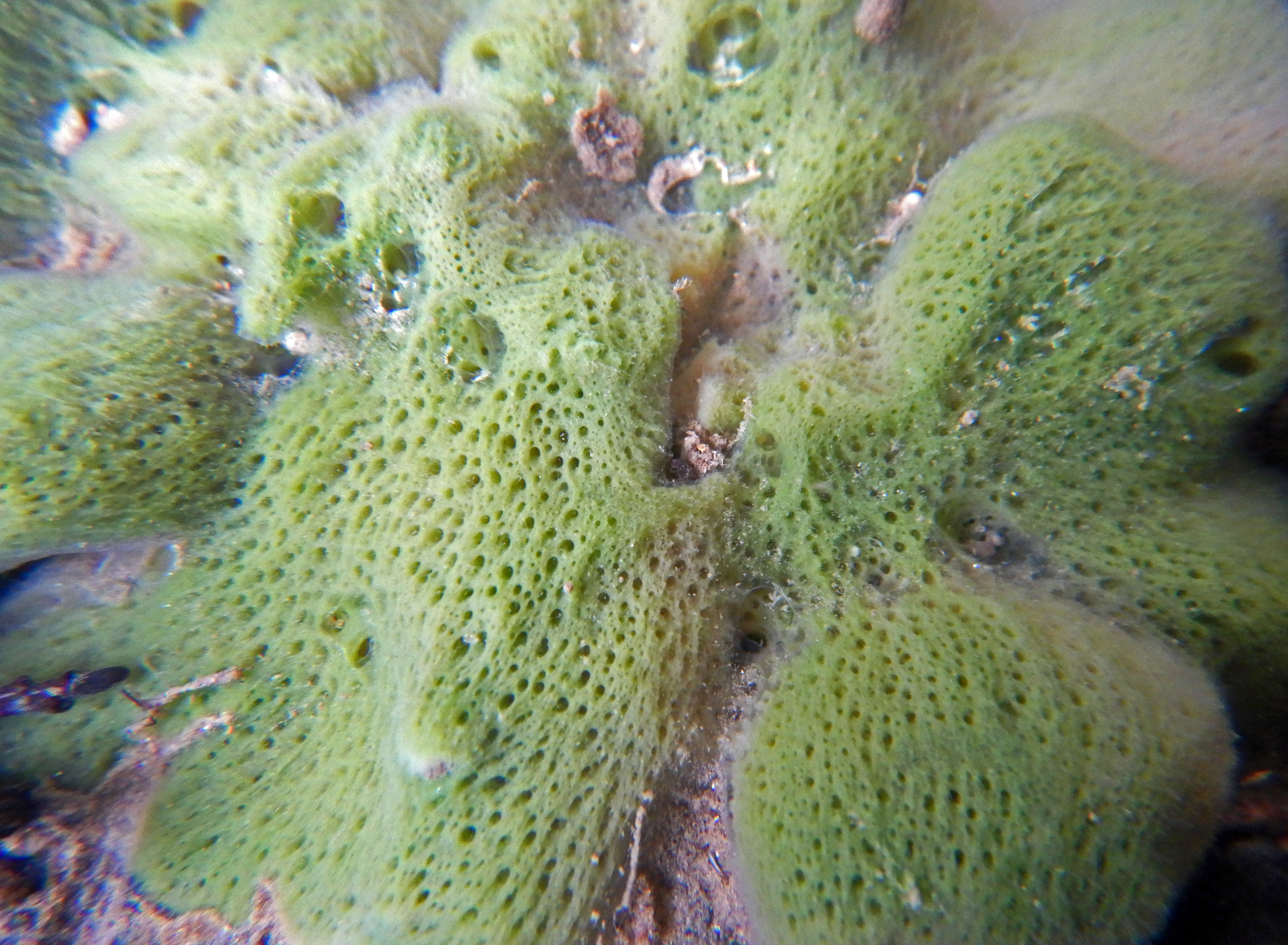 Fresh water Sponge in Authie river (in the Region Hauts-de-France, Northern France). Note: Despite several rainy periods in the hours and days before this photo the water remained clear, the sponges help to filter the water, but not in winter for some species like spongilla lacustris.